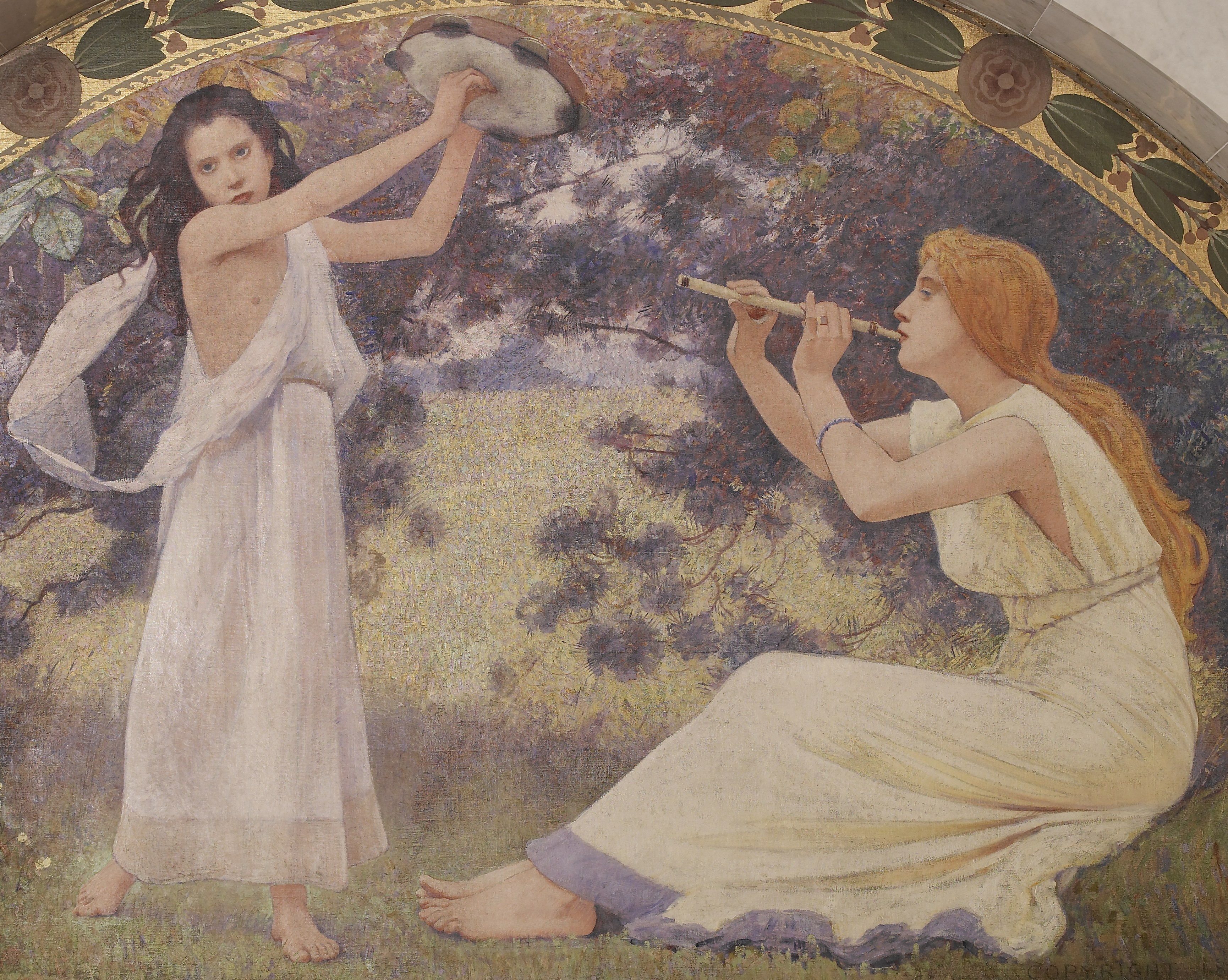 Detail from Recreation. Mural in lunette from the Family and Education series by Charles Sprague Pearce. North Corridor, Great Hall, Library of Congress Thomas Jefferson Building, Washington, D.C. Mural contains artist's logo and "COPYRIGHT 1896 BY C.S.PEARCE".